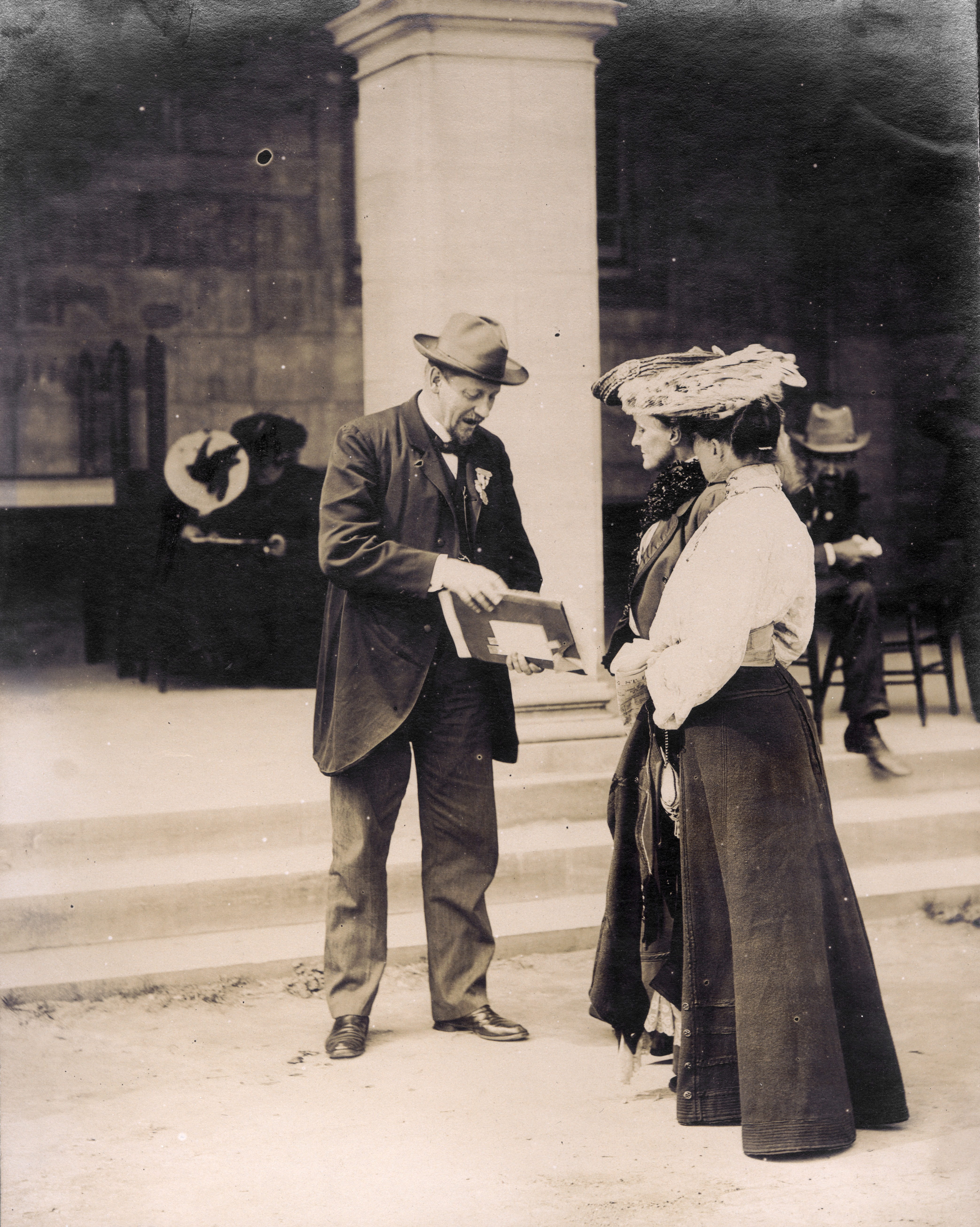 Title: Professor of Physiography, Albrecht Penck of Vienna talking with two women visitors in front of Hall of Congresses at the 1904 World's Fair.